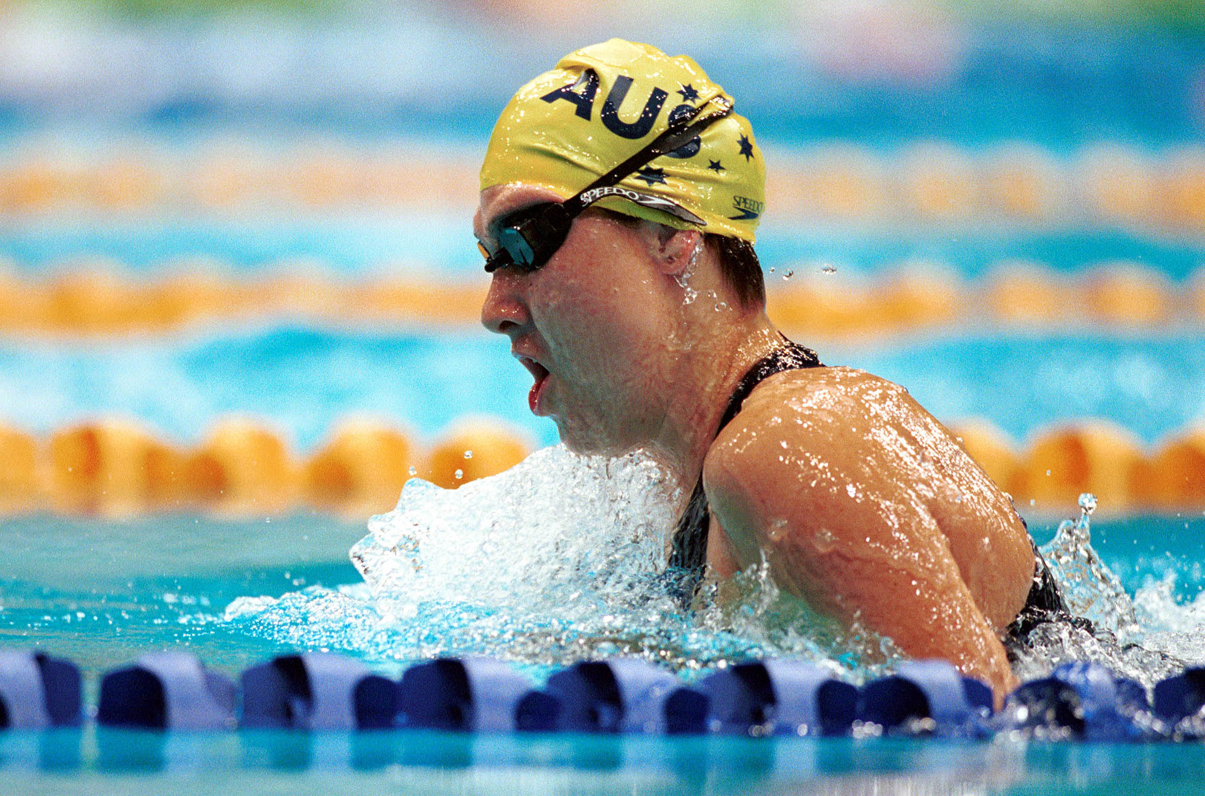 Action shot of Australian swimmer Alicia Aberley in the pool during breaststroke competition on day 3 of the 2000 Sydney Paralympic Games